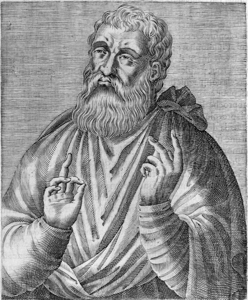 Saint Justin Martyr